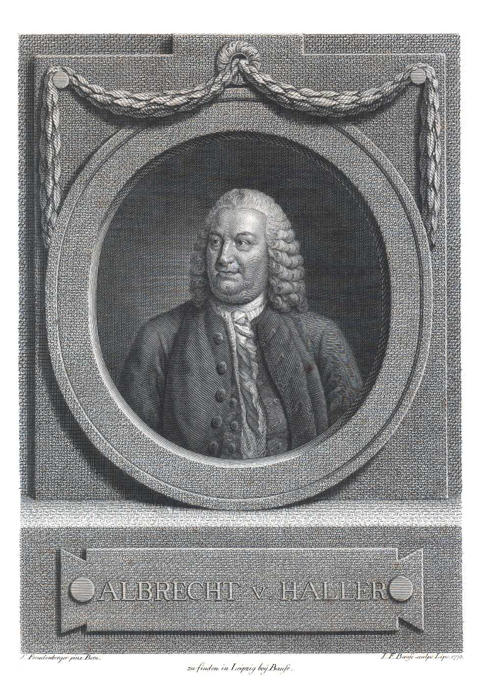 Albrecht von Haller (1708-1777)